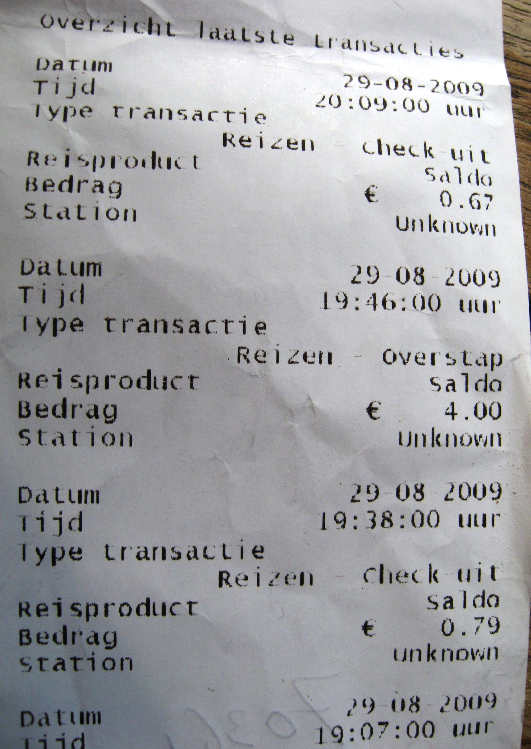 Extract of the OV-chip transactions